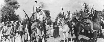 Abd al-Rahim al-Hajj Muhammad (on horseback beneath the "x" mark) and his rebel volunteers during the 1936-39 Arab revolt in Palestine. Abd al-Rahman al-Hattab is riding on the brown horse to the far right while to his right is Maarouf Saad, a volunteer and future parliamentarian of Lebanon. He is positioned beneath the "1" mark. The rebels are outside of Kafr Sur village near Jenin.